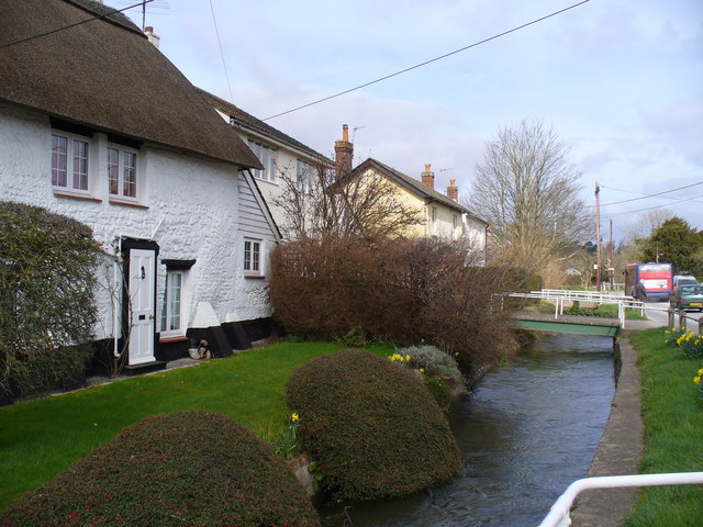 Shrewton, High Street - River Till This chalk stream parallels the village's main street. It has many small bridges crossing it, to connect with houses.